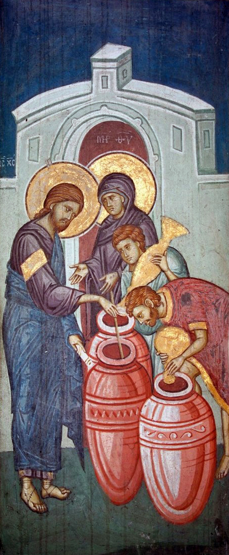 A 14th century Fresco from the Visoki Dečani monastery. (link down)